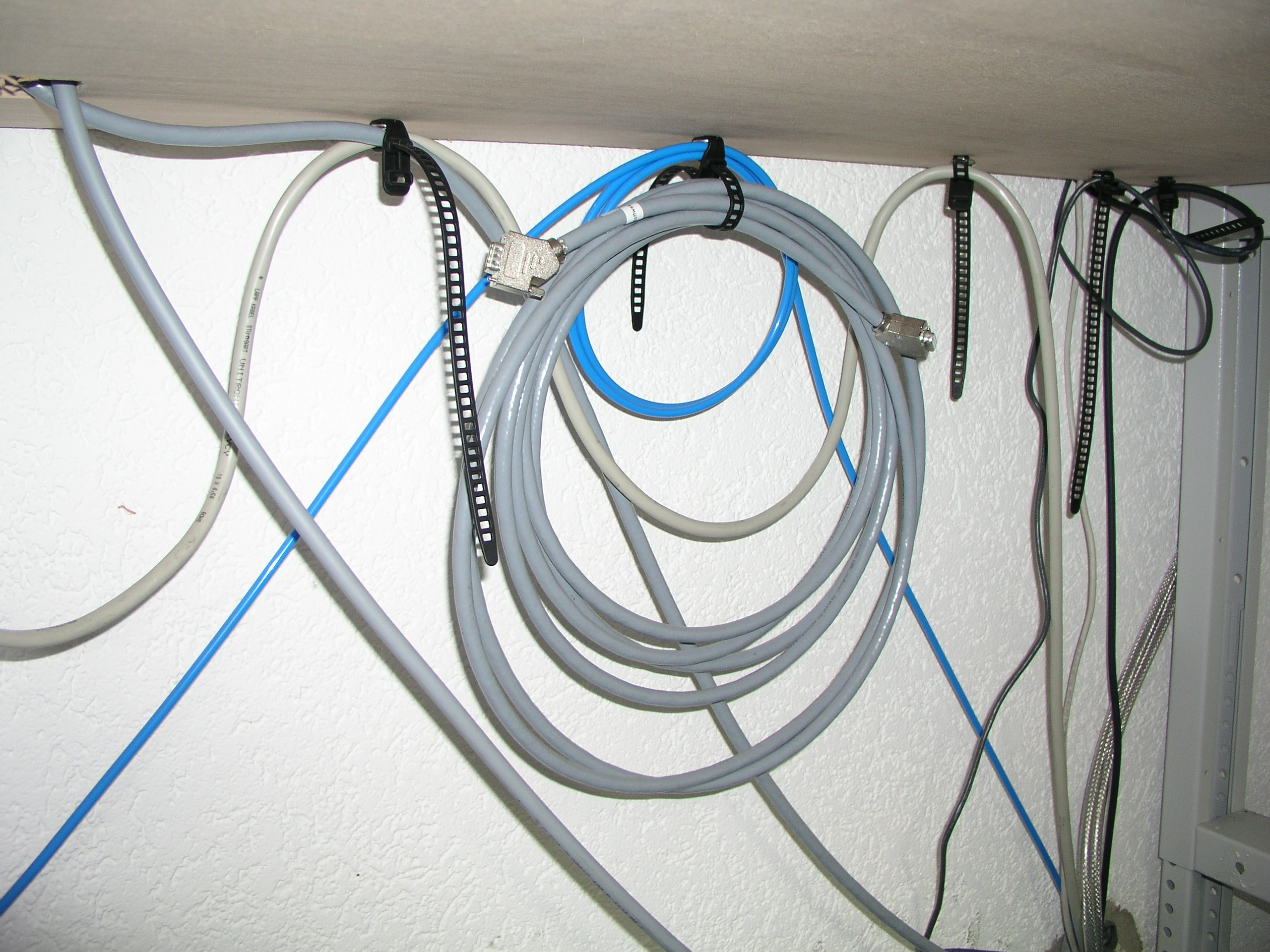 cabel ties rovaflex softbinder